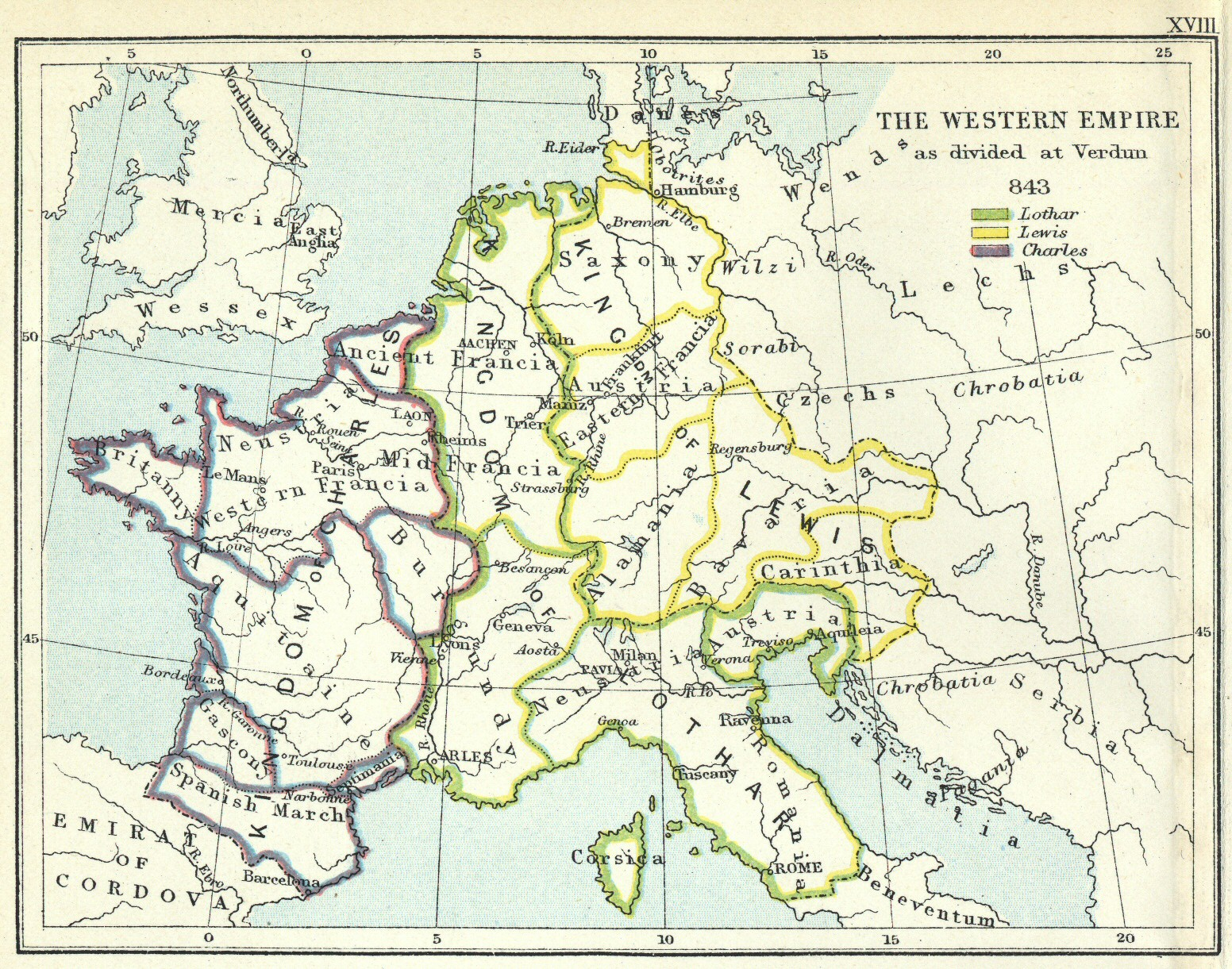 Map of the Empire of Charlemagne as divided among his three sons at the Treaty of Verdun, 843.